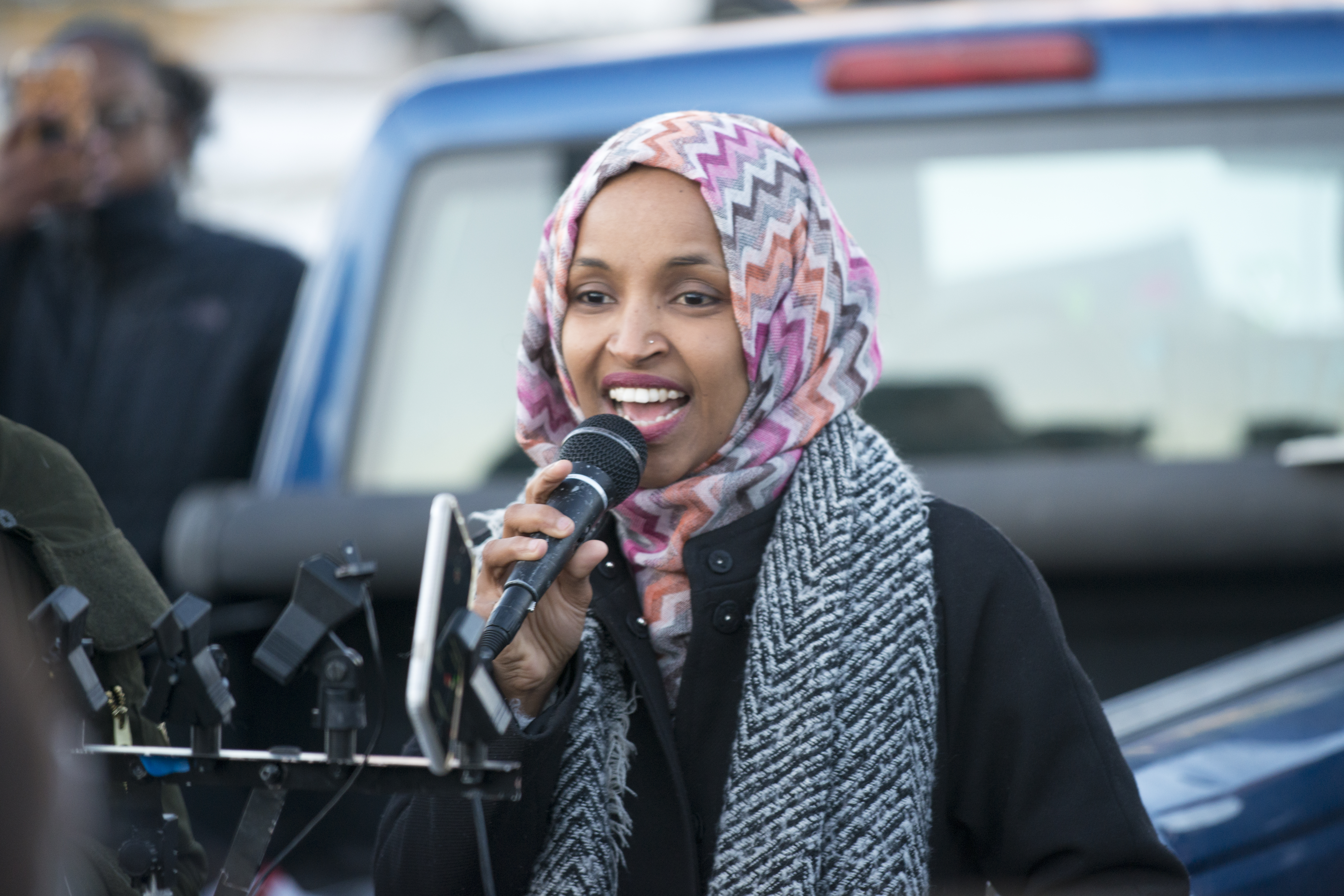 Shakopee, Minnesota December 14, 2018 Around 200 Amazon workers, mostly of East African descent, protested outside their workplace in Minnesota. They protested against working conditions such as workers being tracked by computer and required to work at a high rate of speed, such as scanning something every 7 seconds, and the required speed is increased over time. People of East African descent make up 30-60% of the workforce at this location. U.S. Representative Ilhan Omar spoke to the protesters. 2018-12-14 This is licensed under the Creative Commons Attribution License. Give attribution to: Fibonacci Blue